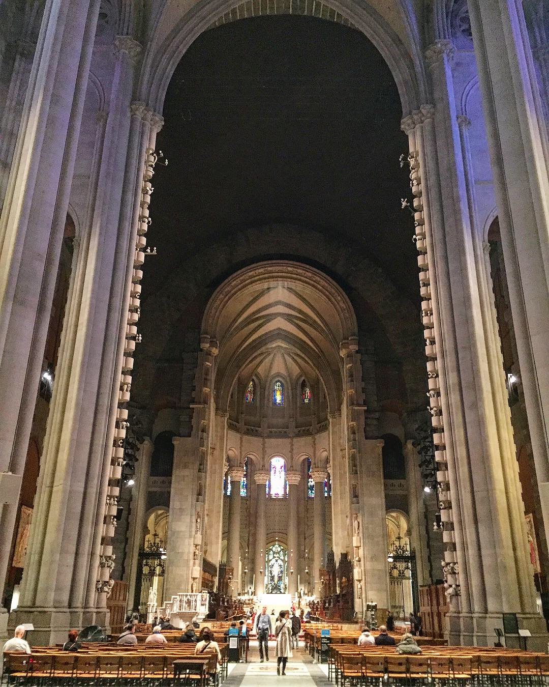 Site: Cathedral of Saint John the Divine